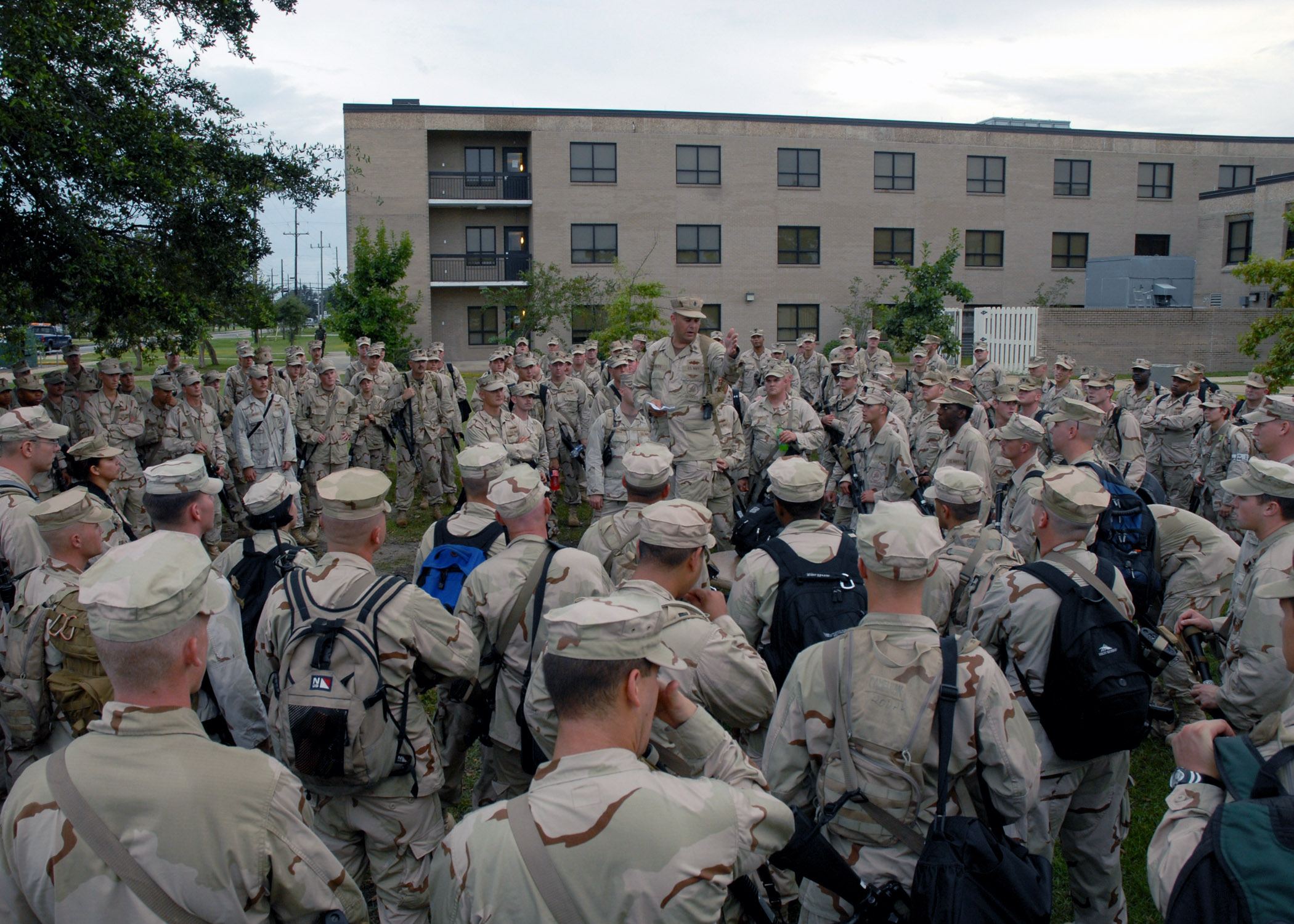 GULFPORT, Miss. (Sept. 24, 2007) - Chief Equipment Operator Orlando Phillips, attached to Naval Mobile Construction Battalion (NMCB) 1, gives instruction to the Seabees of "The First and Finest" as they ready to depart Gulfport on a scheduled deployment. NMCB-1 is deploying to several locations in the Middle East, Afghanistan and Micronesia to provide responsive military construction support to U.S. Military operations. U.S. Navy photo by Mass Communication Specialist 2nd Class Chad Runge (RELEASED)